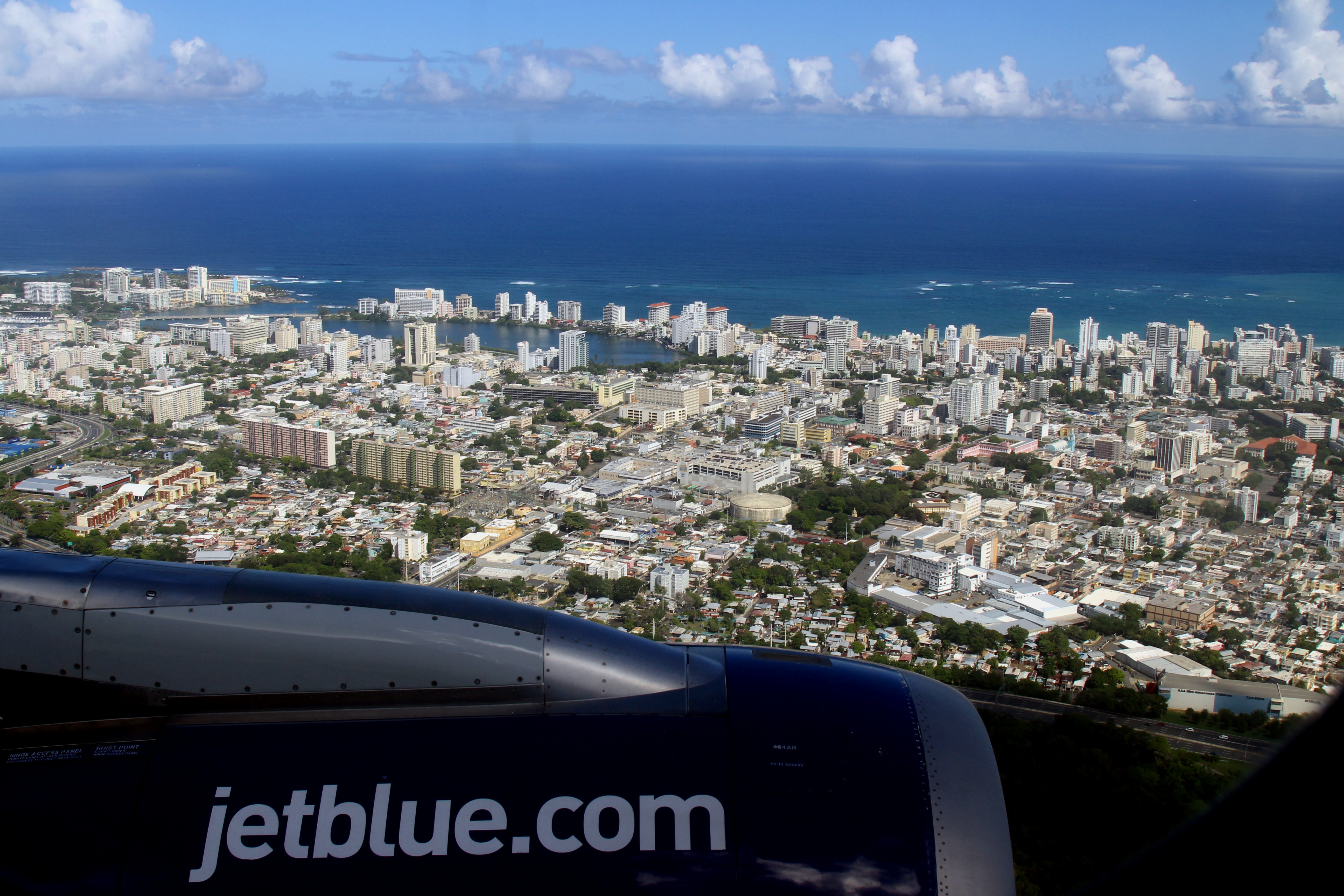 Just about to land at SJU on Board JetBlue Airways Airbus A-320